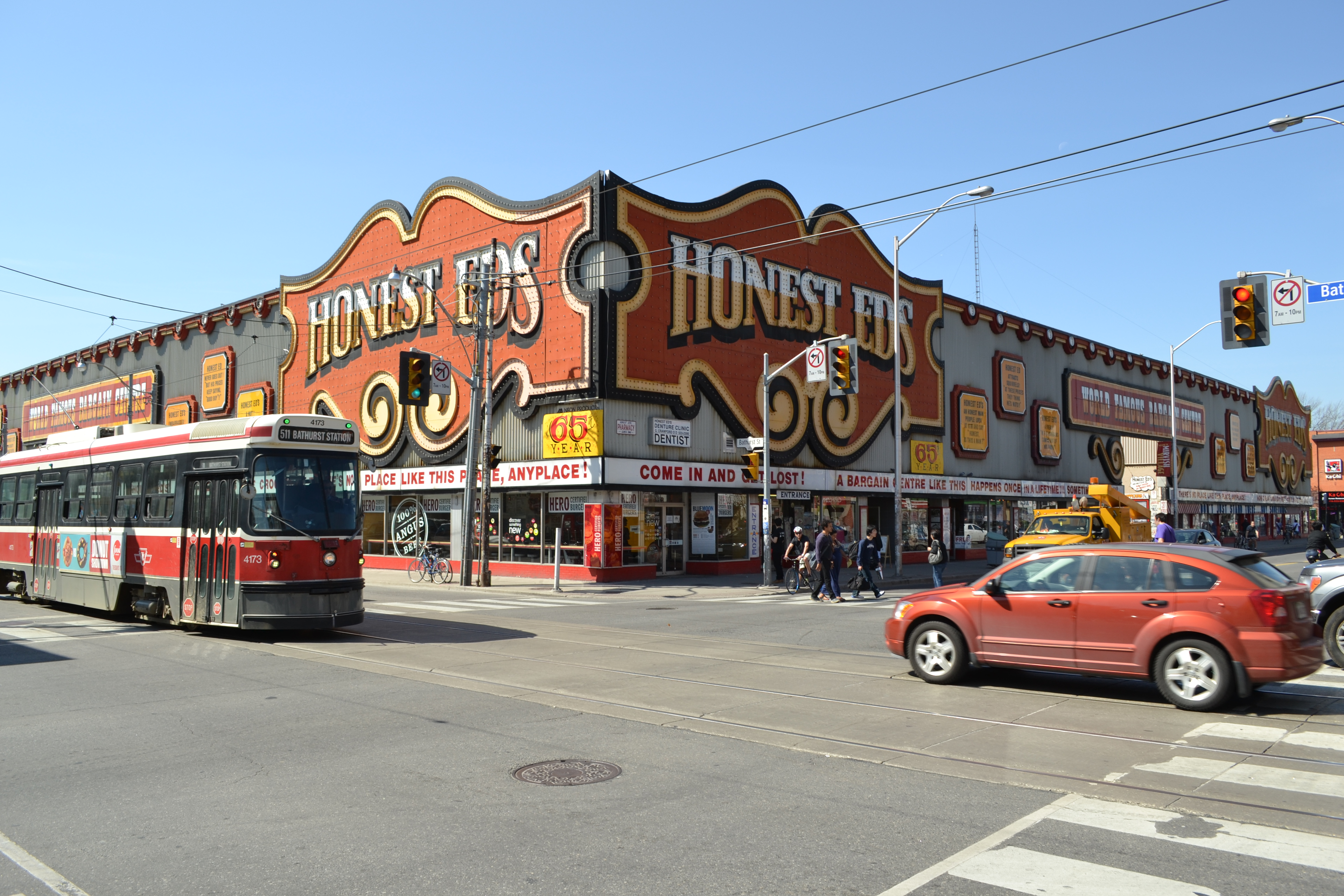 Honest Ed's discount department store, seen at the corner of Bloor and Bathurst in Toronto.